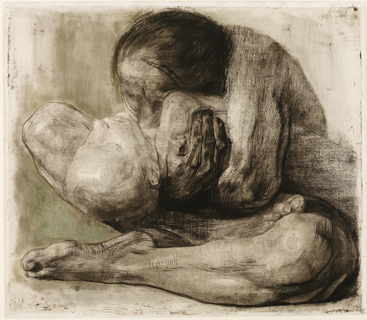 Käthe Kollwitz (1867-1945): "Woman with a dead child", 1903, line etching, drypoint, emery and vernis mou with printing of handmade paper and Ziegler'schem transfer paper, with gold-colored, injected clay stone. The depicted child is the youngest son Peter Kollwitz (1896-1914) at the age of 7 years.